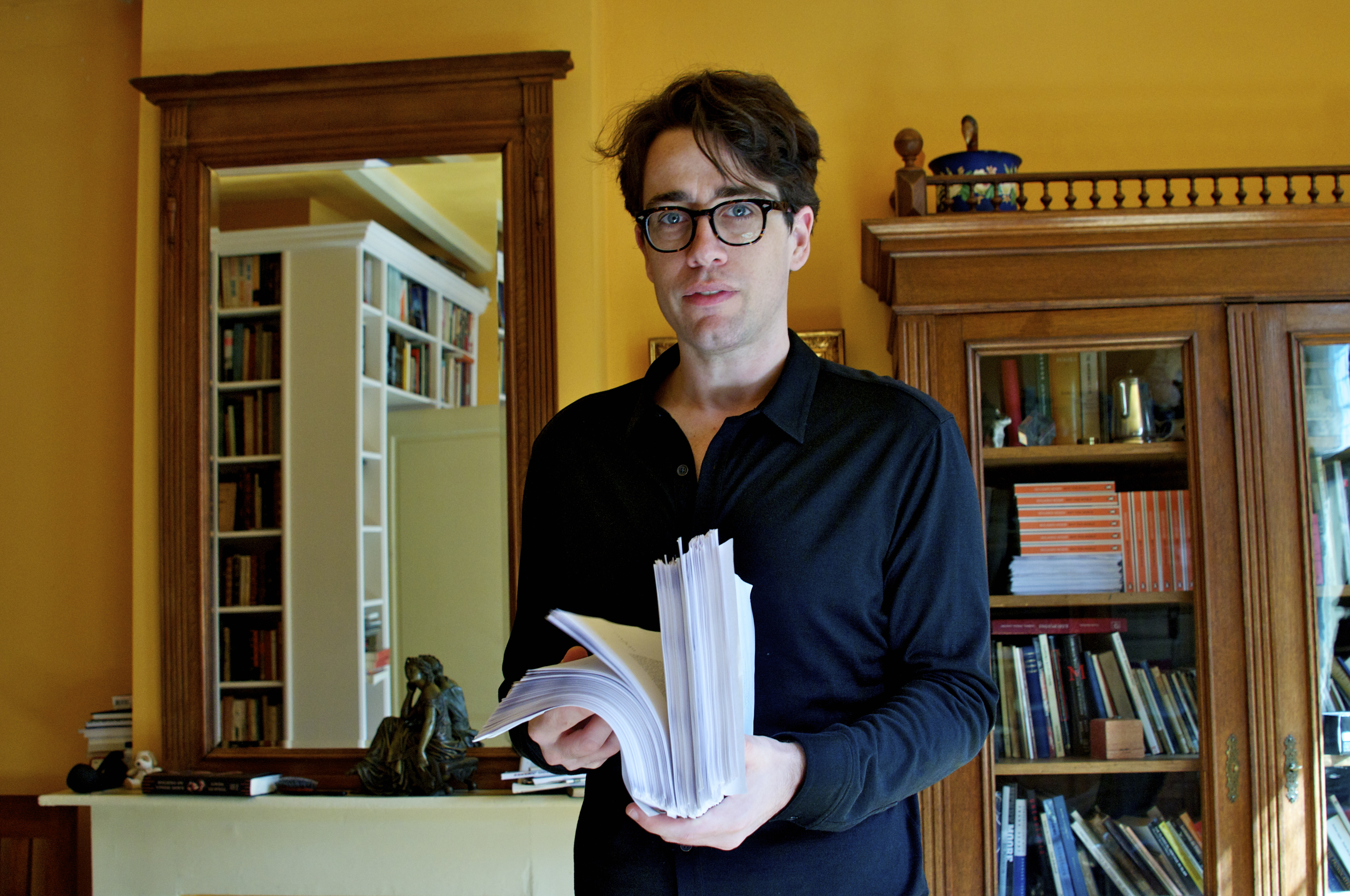 Benjamin Moser with the manuscript of Clarice Lispector's Complete Stories